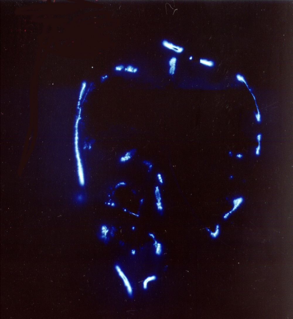 Color Kirlian photo of a leaf. Leaf was placed directly on color paper.